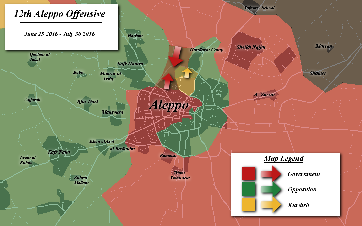 A simplified version of the 12th Aleppo Offensive. Created in gimp 2.8. Influenced by many maps from creators: MrPenguin20, PetoLucem, Edmaps Syria, and so on.